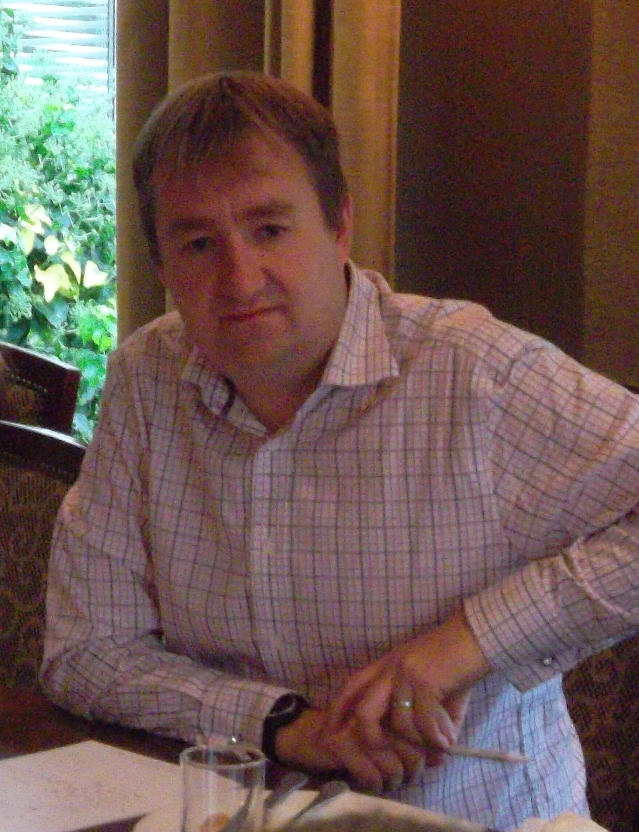 Nigel Mills, Conservative MP for Amber Valley